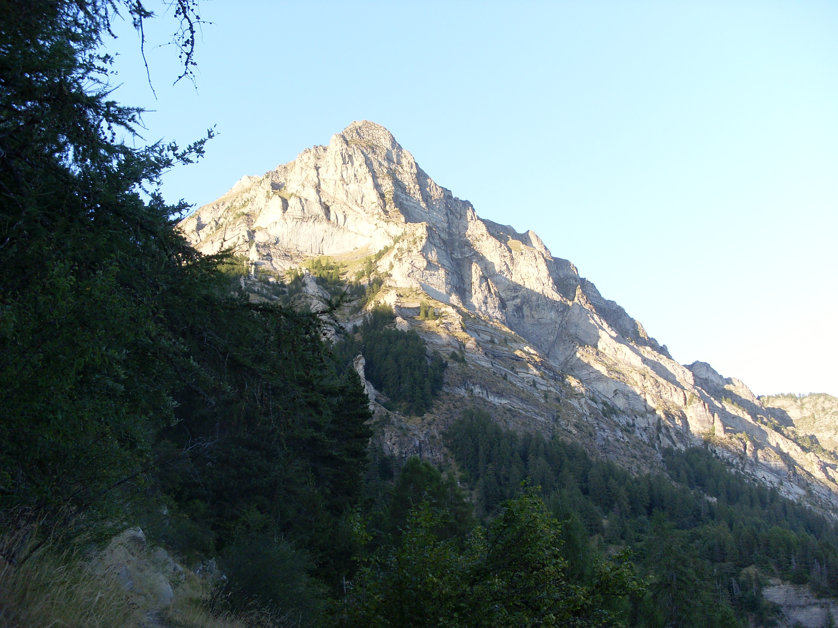 Le palastre depuis chaillol.